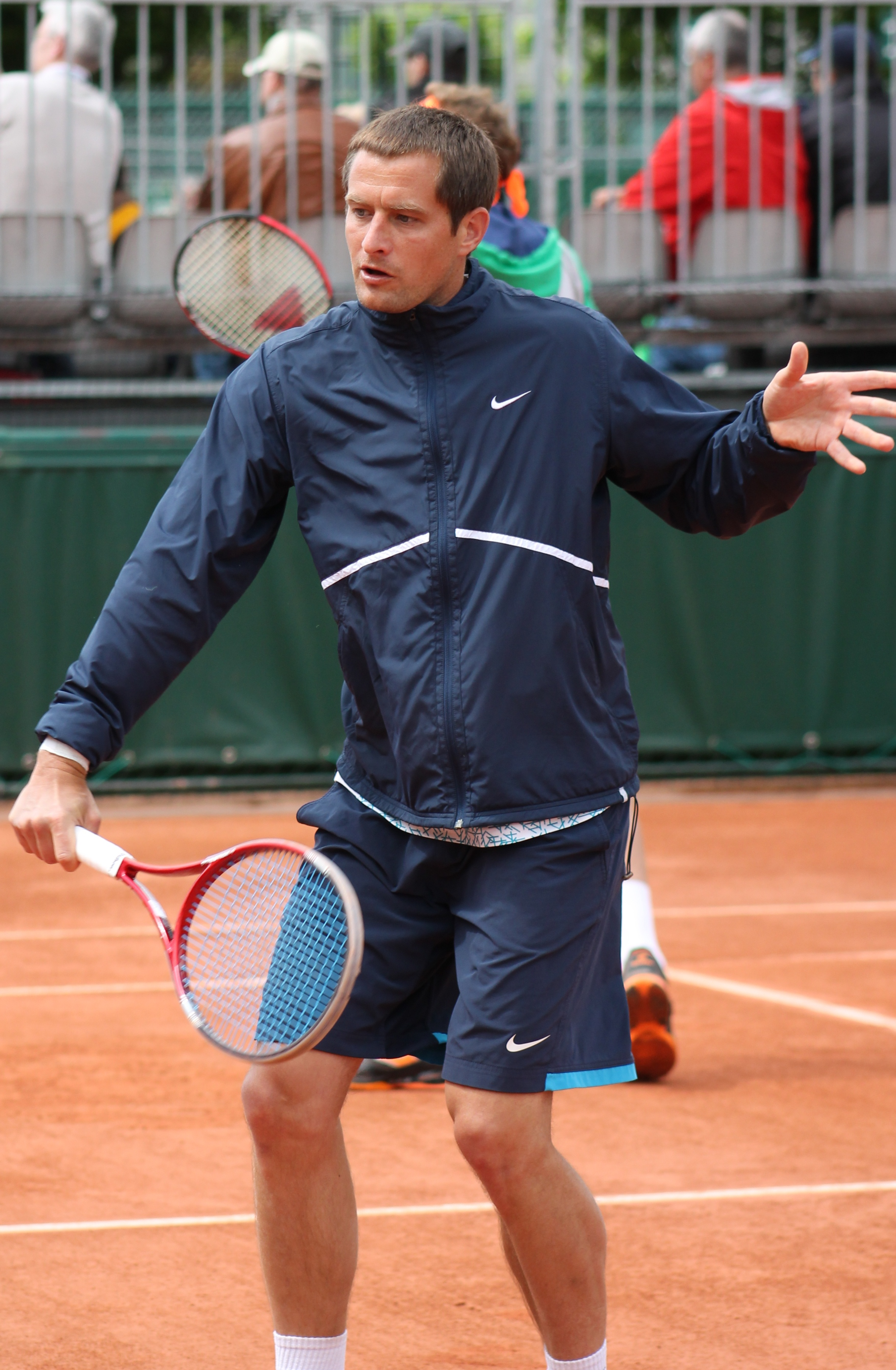 Mikhail Elgin playing at Roland Garros 2013